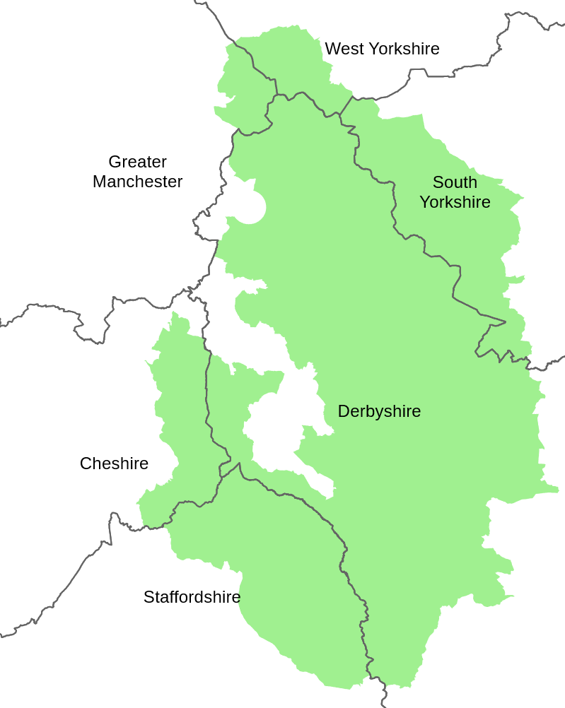 Map of the Peak District National Park with county boundaries